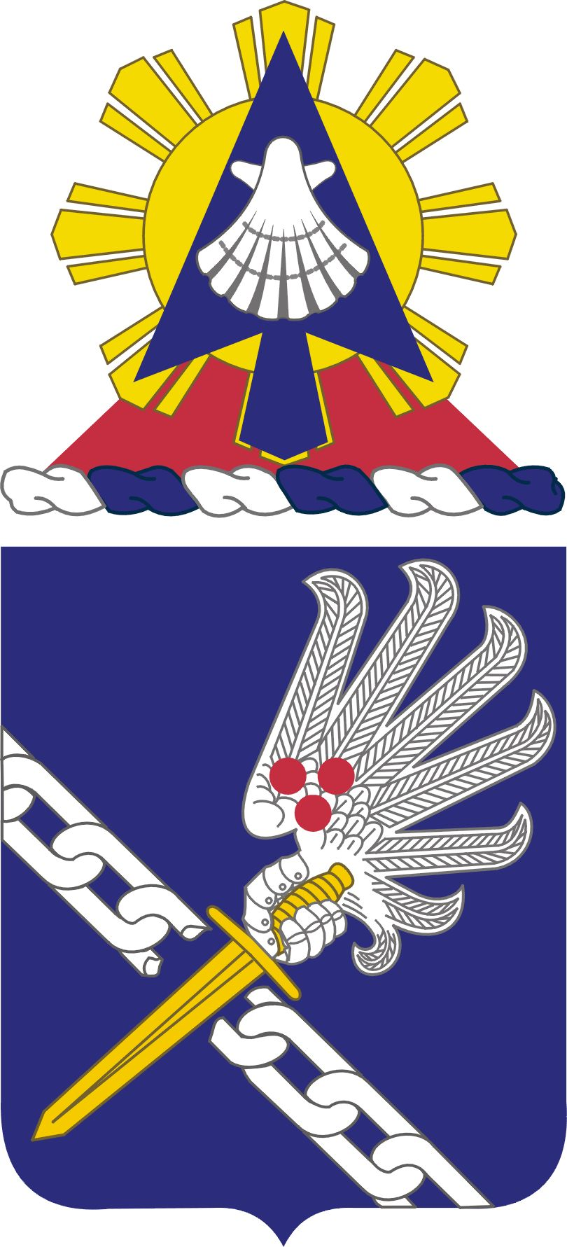 The coat of arms was originally approved for the 188th Airborne Infantry Regiment on 28 September 1951. It was redesignated for the 188th Infantry Regiment on 11 September 1963. It was amended to add a crest to the coat of arms on 27 May 1965.